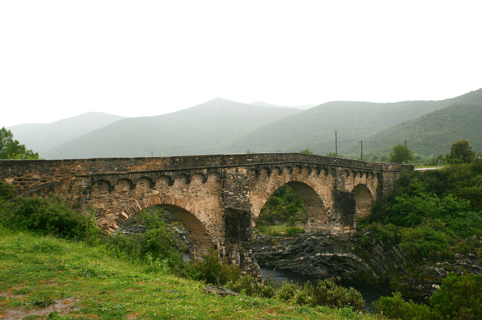 Altiani (Haute-Corse) - France, the genevose bridge (XIVth century) on the Tavignano river.